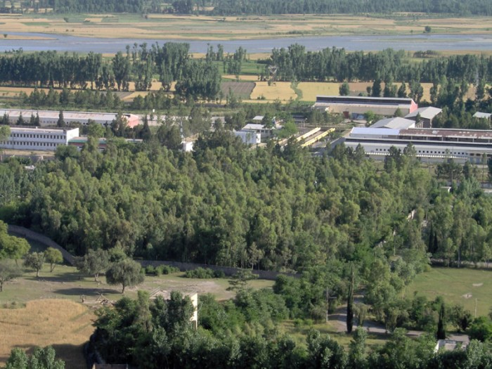 this is picture of malakand university